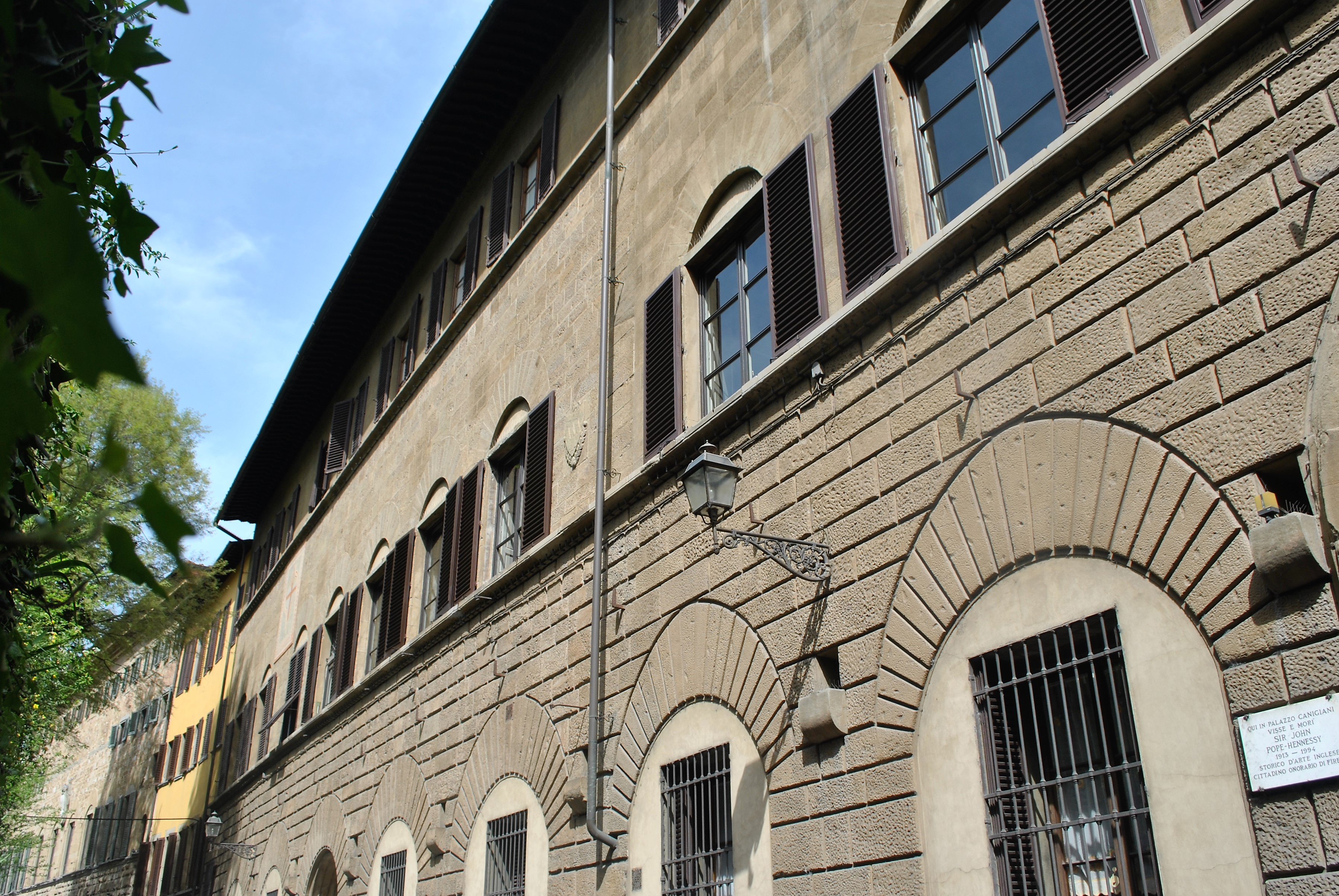 Image originally published in Queer Places: Retracing the Steps of LGBTQ people around the World Authored by Elisa Rolle